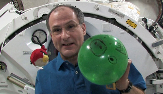 NASA astronaut and International Space Station flight engineer Don Pettit demonstrates microgravity using characters from 'Angry Birds.' In cooperation with NASA, Finland-based Rovio Entertainment, creator of the Angry Birds franchise, has announced its newest game, "Angry Birds Space," on March 8, 2012. Game developers have incorporated concepts of human space exploration into the new game. Dr. Pettit created a video using Angry Birds Space to explain how physics works in space, including demonstrating trajectories in microgravity by catapulting an Angry Bird through the space station.